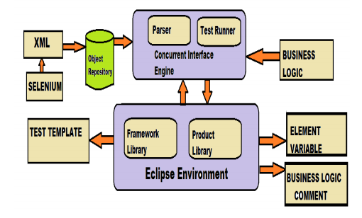 Test Automation Interface Design Model Example